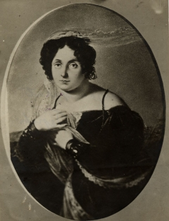 Letizia Murat, marchioness Pepoli